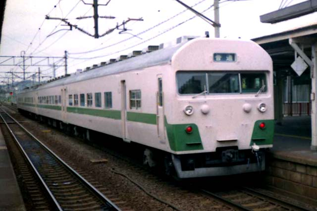 A JR East 715-1000 series EMU (location unknown)